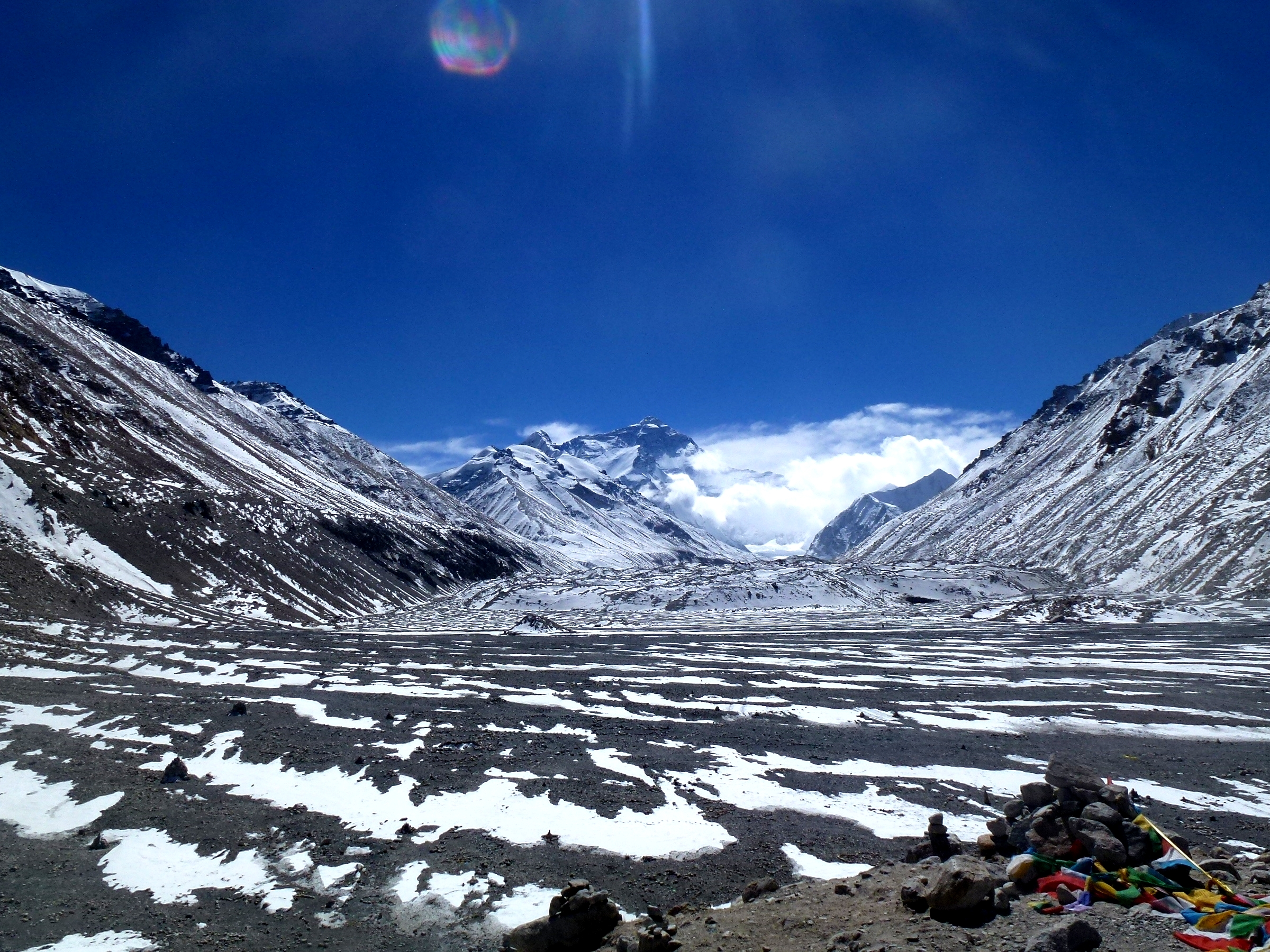 8,848m Chomoranma 5,200m Base Camp Tibet China 西藏 珠穆朗玛峰